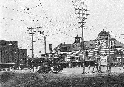 Fusan(Busan) Station circa 1930